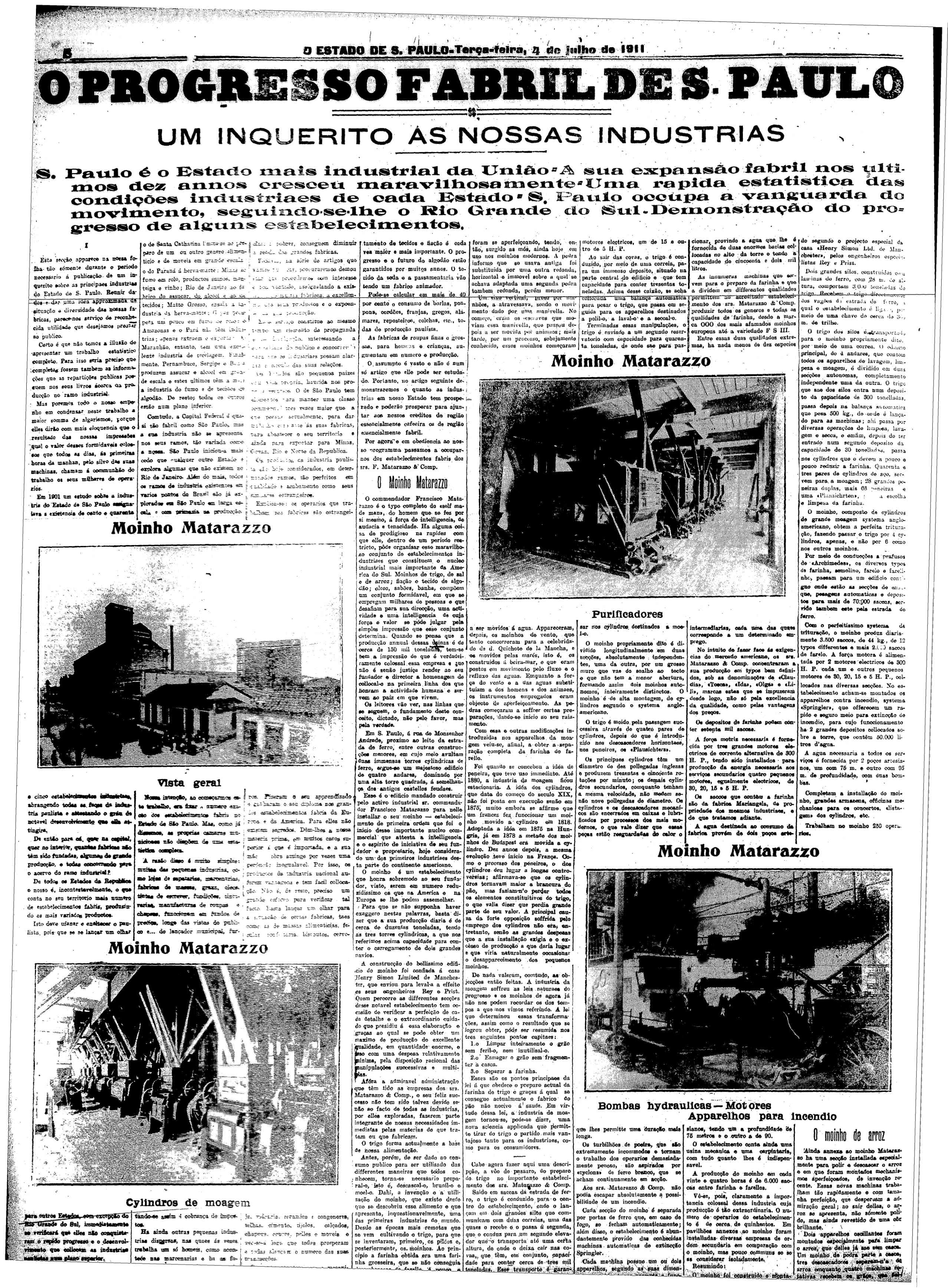 Article published in O Estado de S. Paulo in July 4th, 1911, page.10